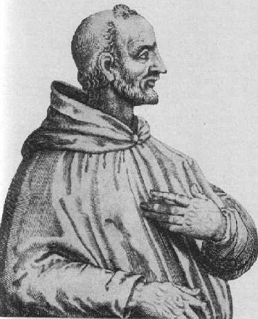 H.H. Pope Eugene III